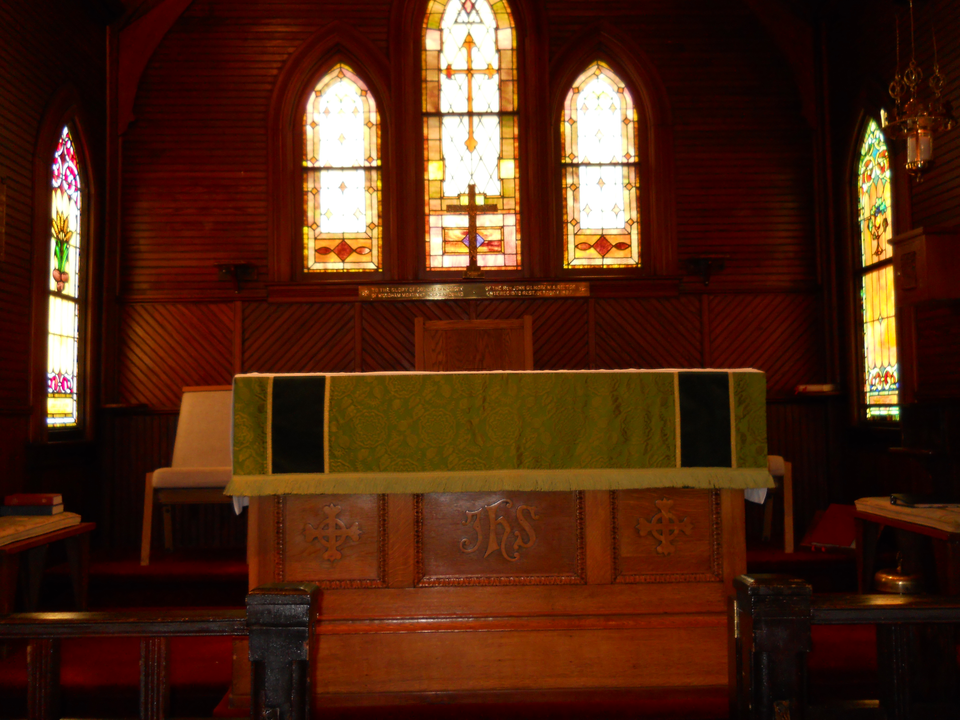 All Saints Episcopal Church, Jensen Beach. Florida: sanctuary